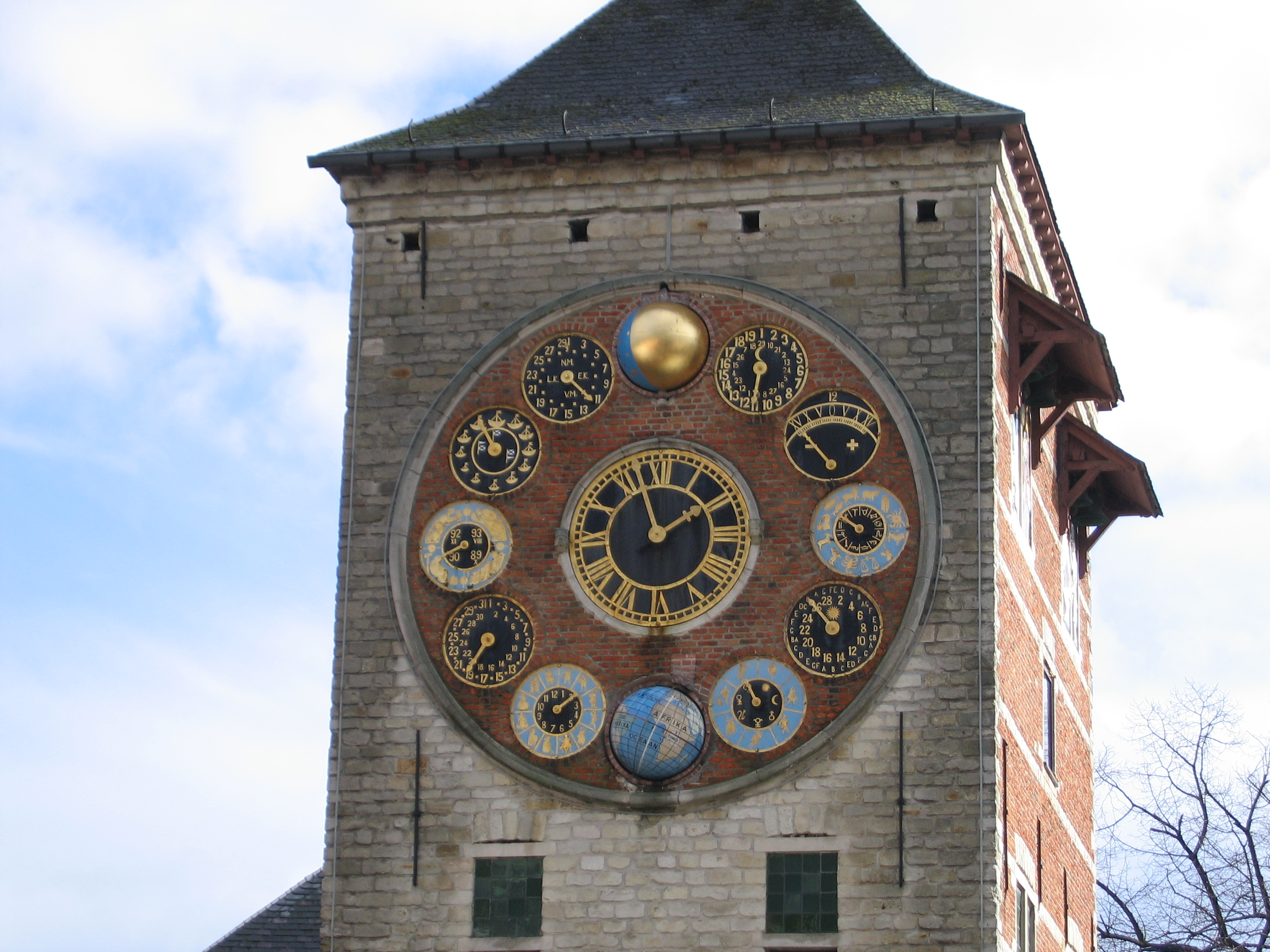 Upper part of the northwest side of the Zimmer tower (former Cornelius tower) at Lier, Belgium, on 19 February 2005 at 13:57, with the Jubilée clock (installed after the restoration of the tower for the centenary of the Kingdom of Belgium). The big central dial shows the current local legal time in Belgium (UTC+1, standard time in winter when the photograph was taken), in half-day hours and minutes. The twelve smaller dials disposed around the centre are showing, clockwise from top: the phase of the moon; the metonic cycle and the epact; the equation of time; the zodiac; the solar cycle and the dominical letter; the week; the Earth’s globe; the months; the calendar dates in the month; the seasons; the tides; the age of the moon.